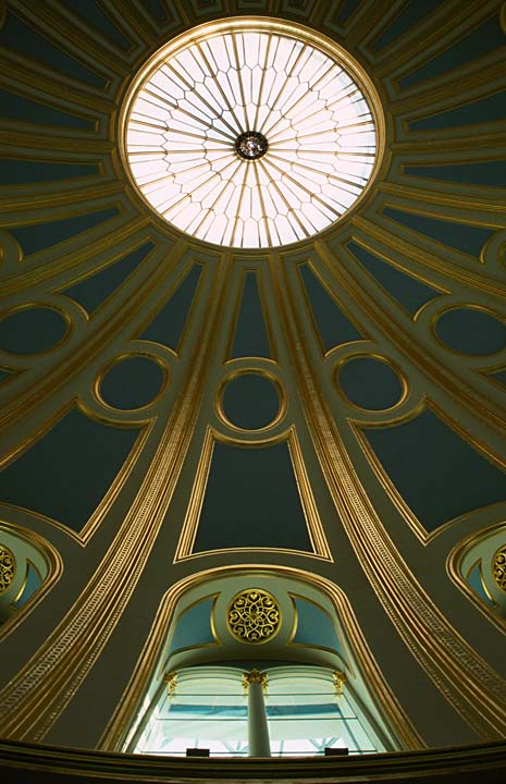 Ceiling of the British Museum Reading Room, London, England.